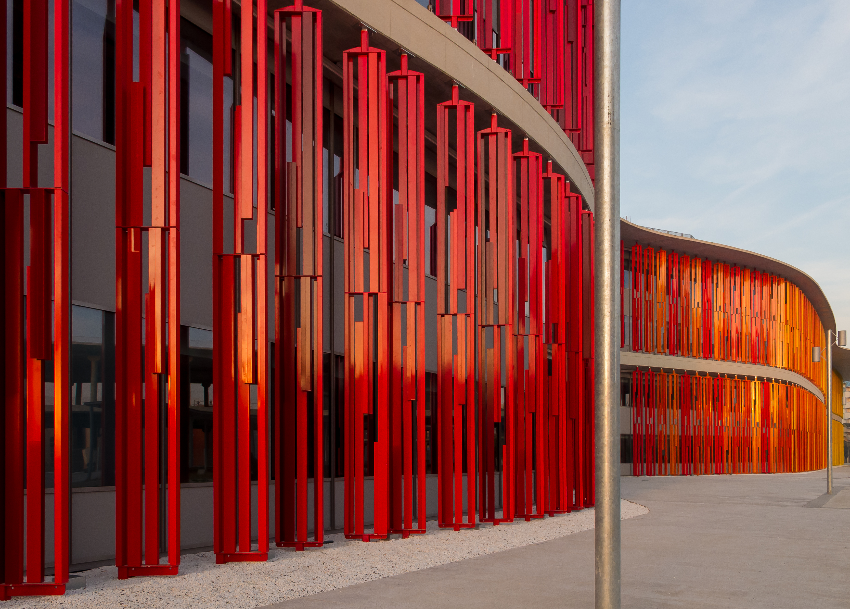 Zaragoza, Spain: A view at Expo 2008 area